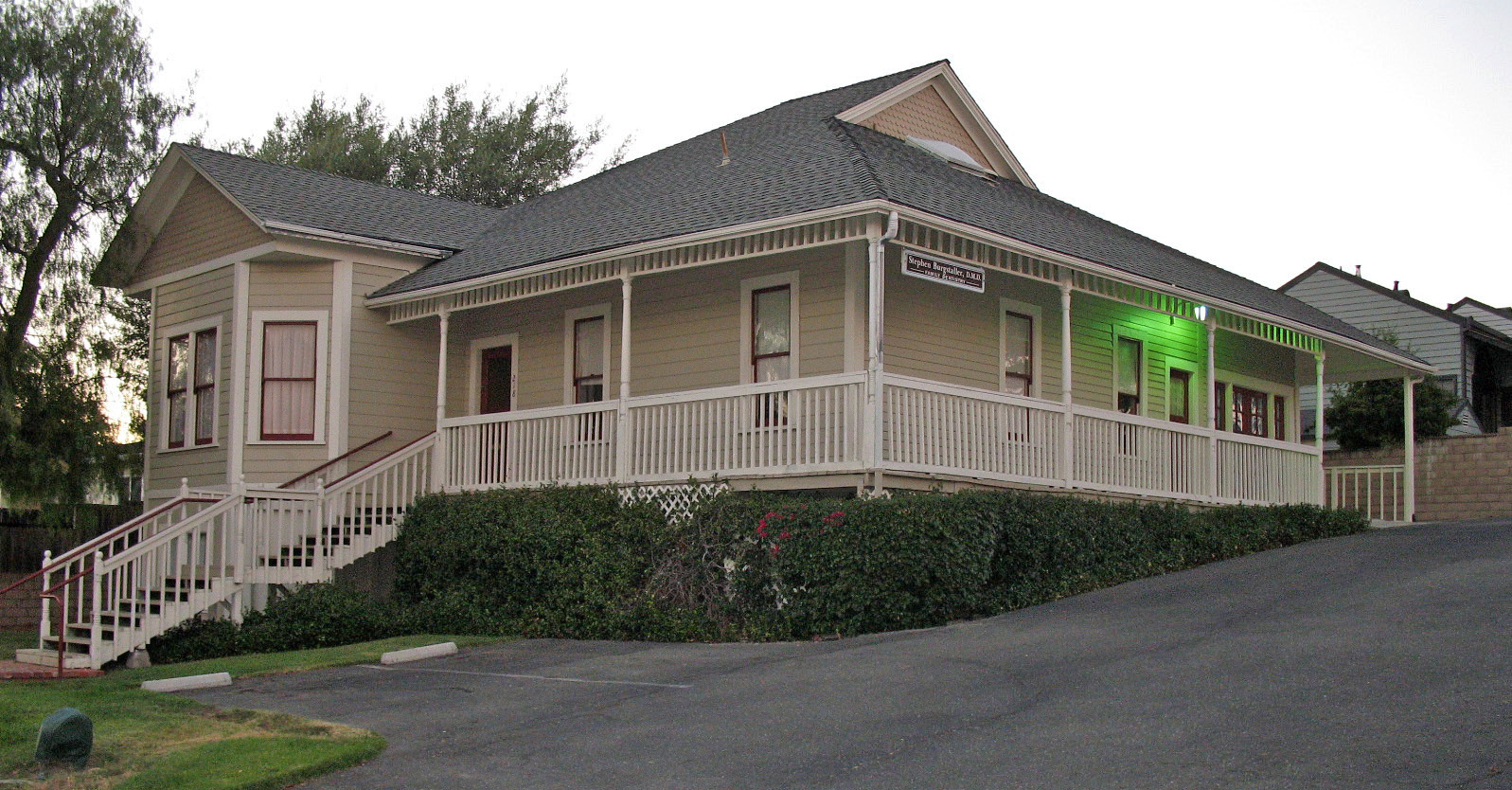 National Register of Historic Places listings in Contra Costa County, California. William T. Hendrick House, 218 Center Ave, Pacheco, California, USA. Photographed 2008-09-07 from the north side of Center Ave. west of Aspen Dr.